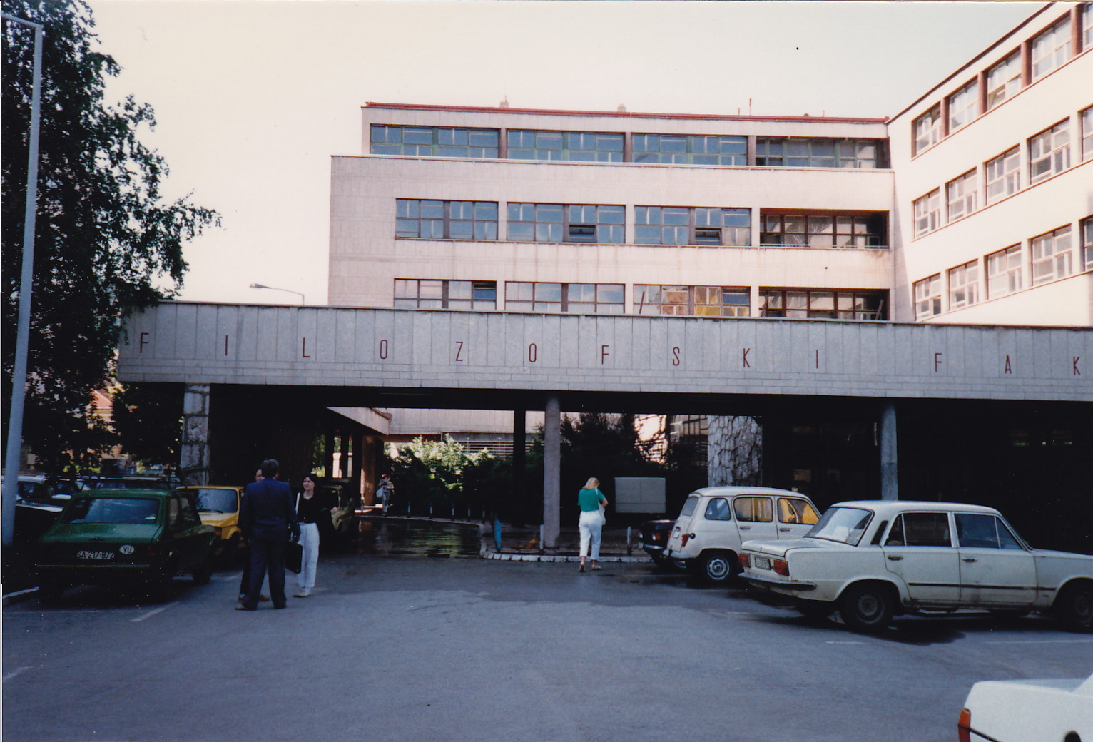 Where I took Bosnian language and history lessons through the University of Sarajevo